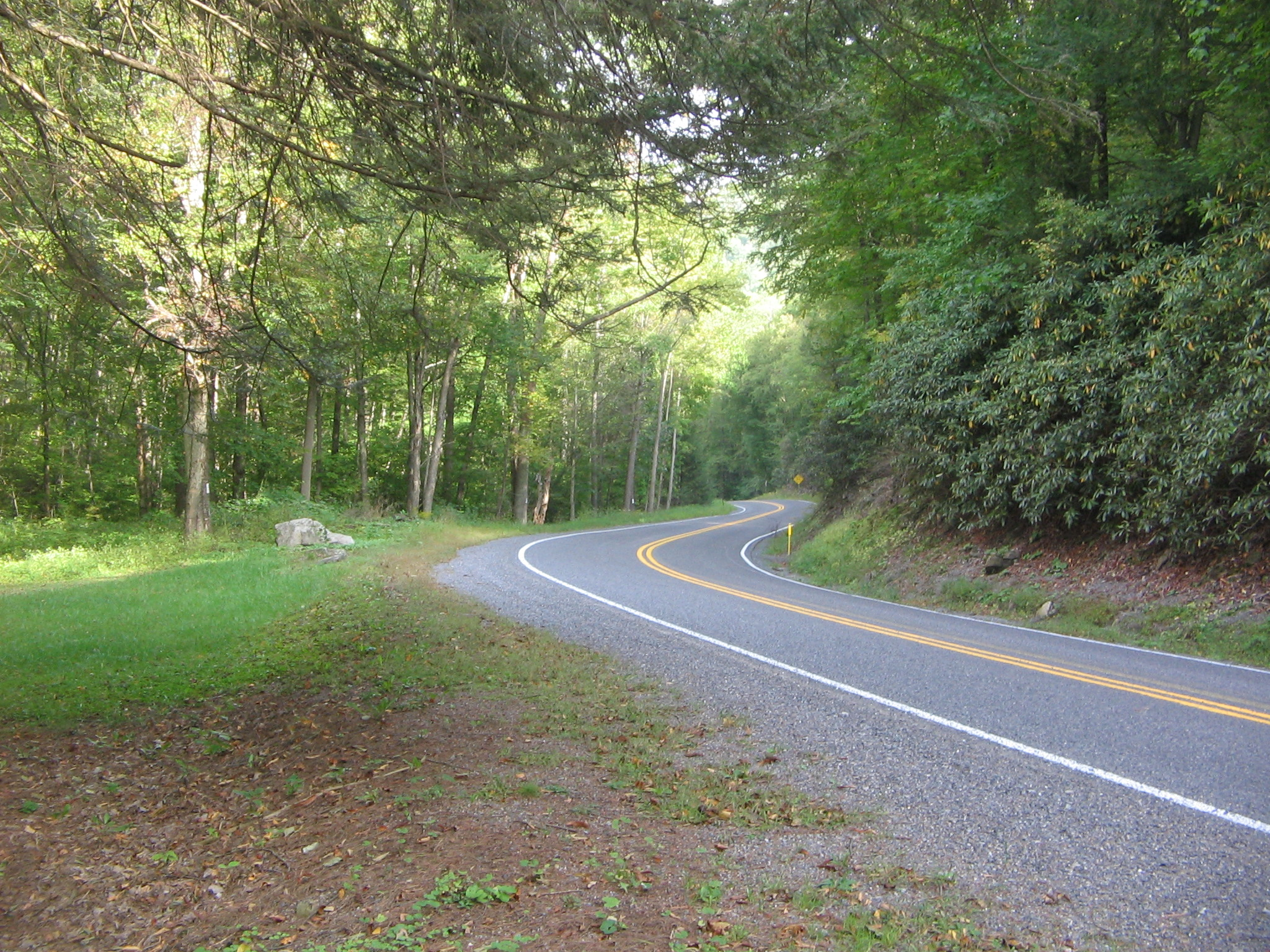 Pennsylvania Route 44 from Upper Pine Bottom State Park, Cummings Township, Lycoming County, Pennsylvania, USA